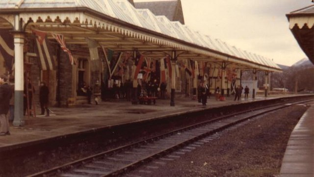 Keswick Railway Station - the last day Keswick railway station decorated with flags on the last day of train services, 4 March 1972